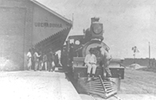 Estação Mogiana de Uberlândia, Minas Gerais, Brazil - year of 1895.